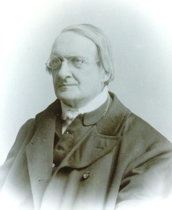 Theodor Pyl (1826–1904)